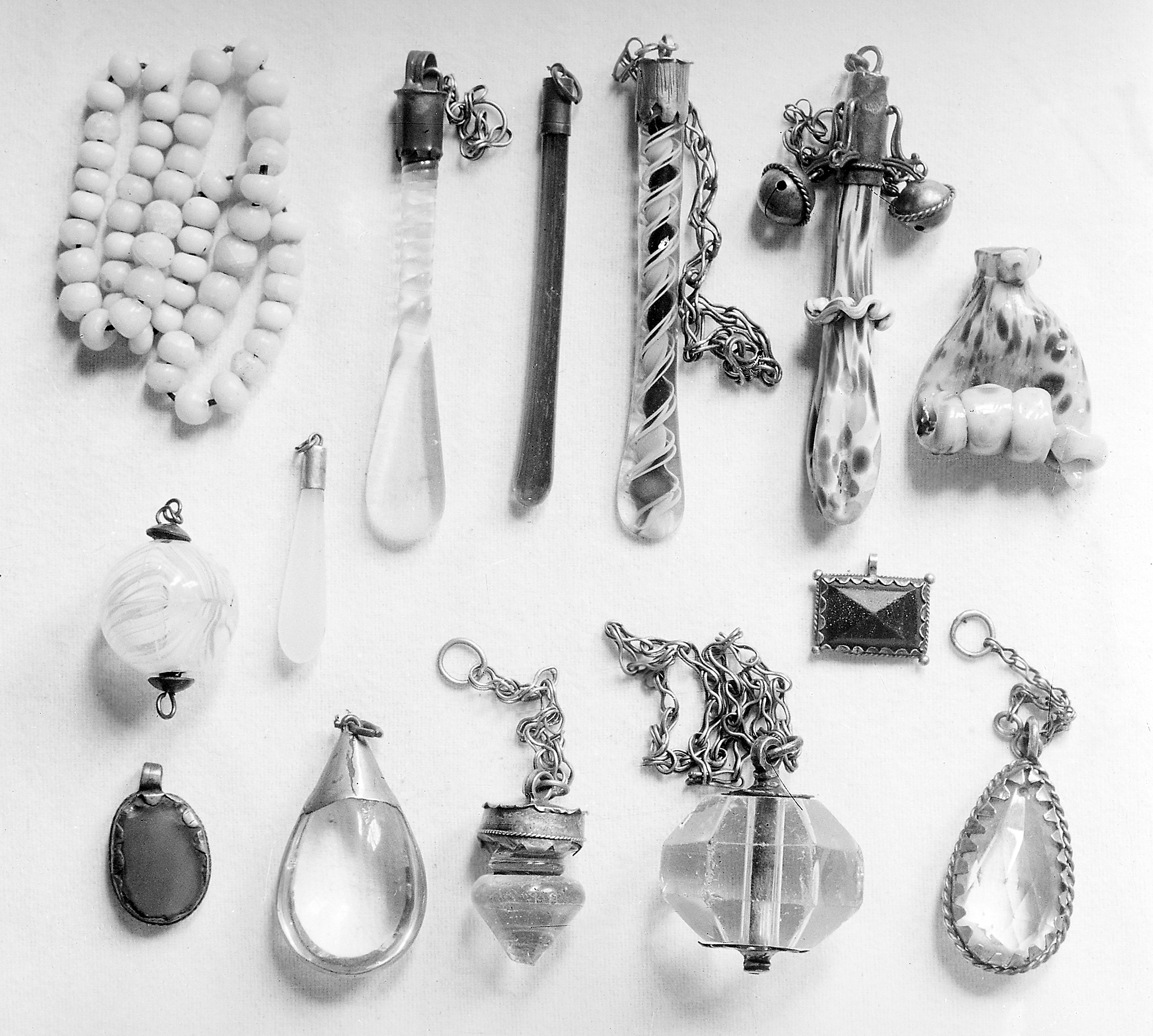 Glass, milky beads; 4 chupadors (suckers), clear blue, twisted colours, spotted white; spotted white fig-hand; clear and white bead; milky pendant; aventurine oblong; red and coloured (2 drops, 2 facetted). Wellcome Images